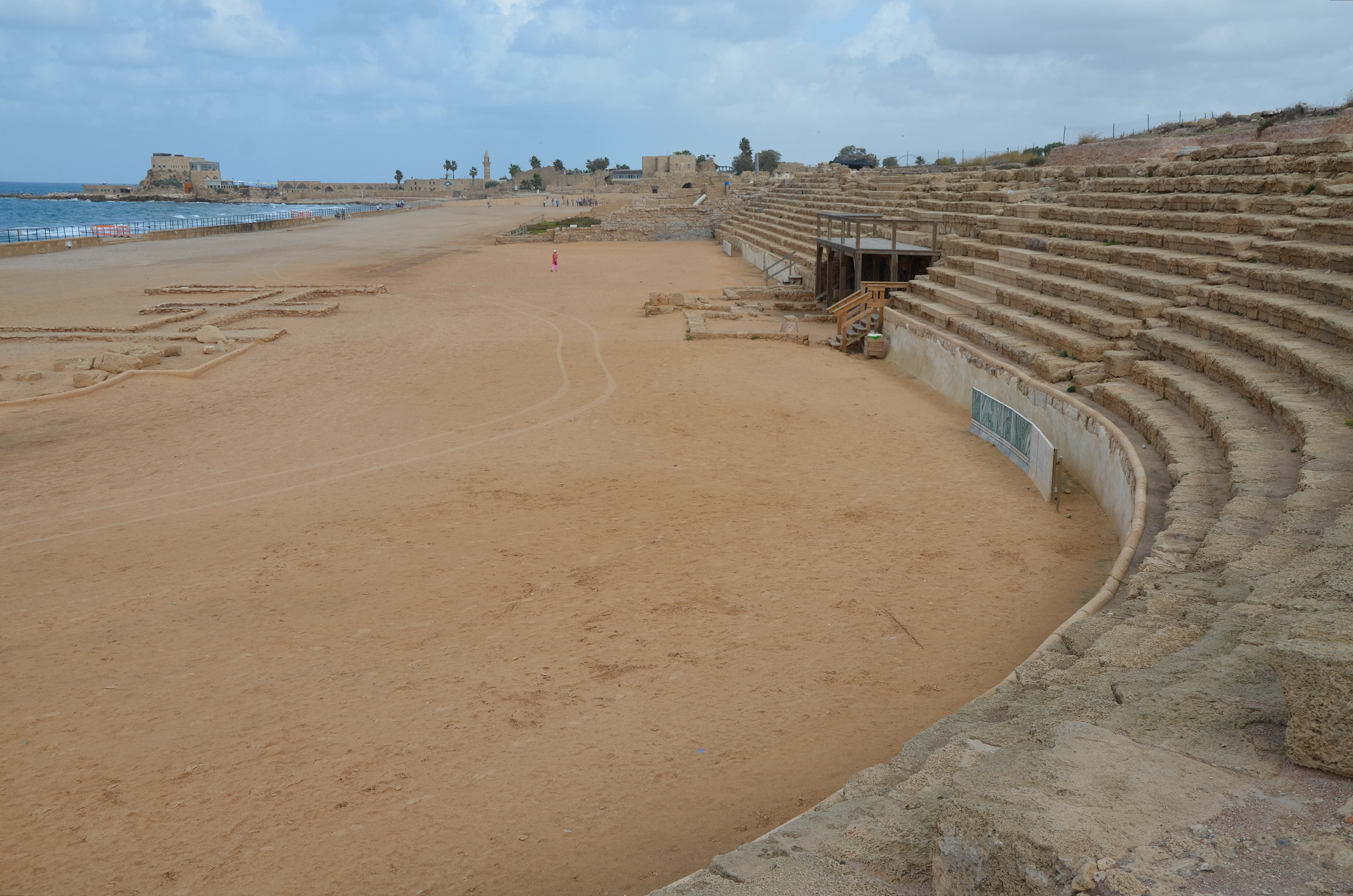 The hippodrome, built by Herod the Great for the inauguration of the city in 9/10 BC, it was the venue of the Actian Games instituted by King Herod in honor of emperor Augustus and held every 4 years, Caesarea